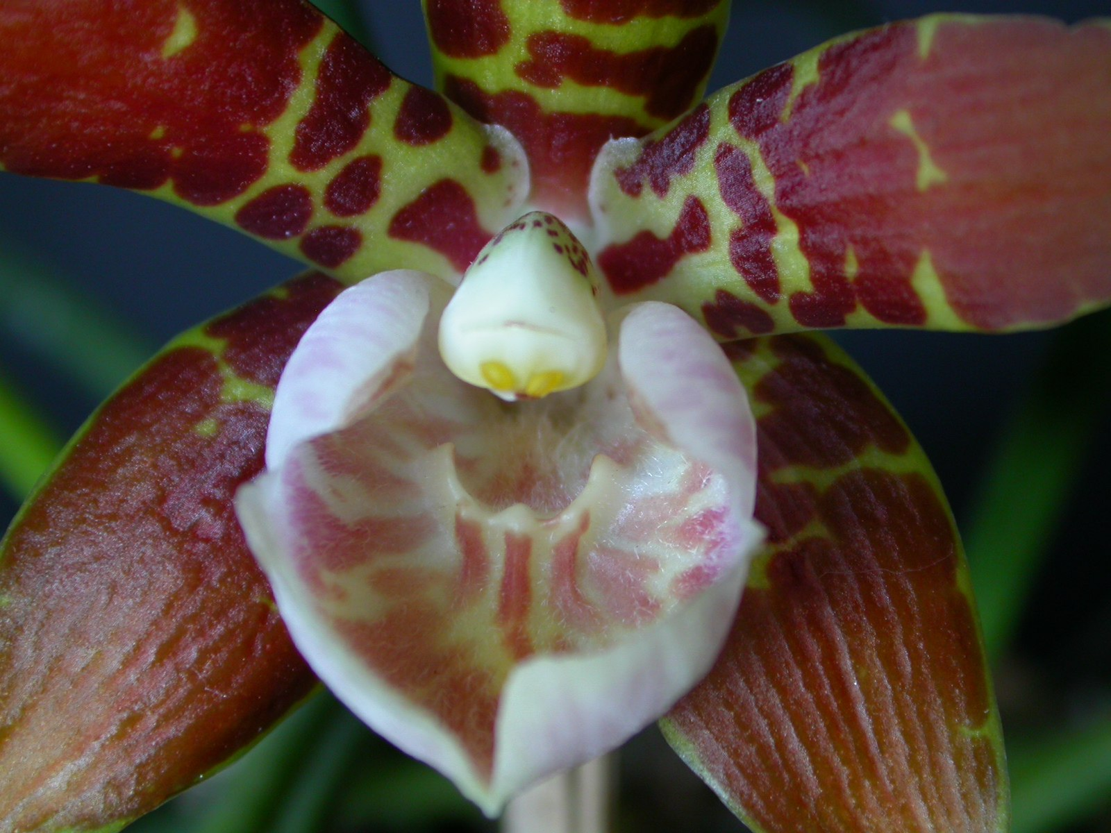 Scuticaria hadwenii